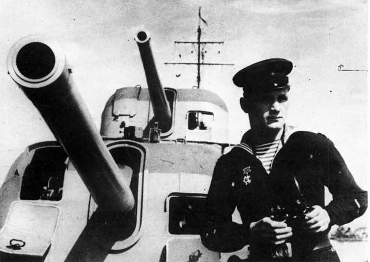 Forward guns of the Storozhevoy-class destroyer Soobrazitelny